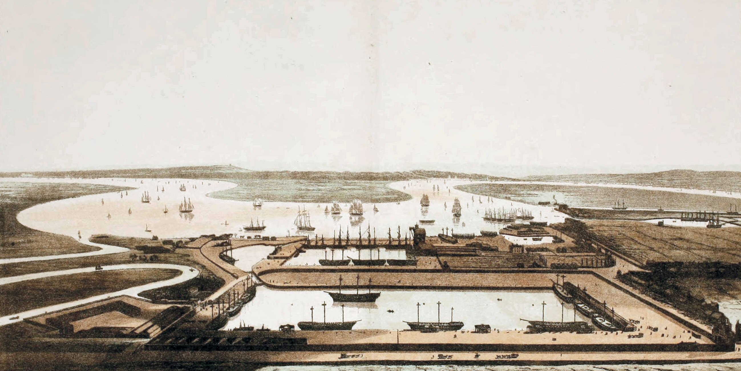 View looking south across the East India dock, Blackwall, London. Early 19th century. The smaller dock adjacent to the river Thames was originally the Brunswick Dock.